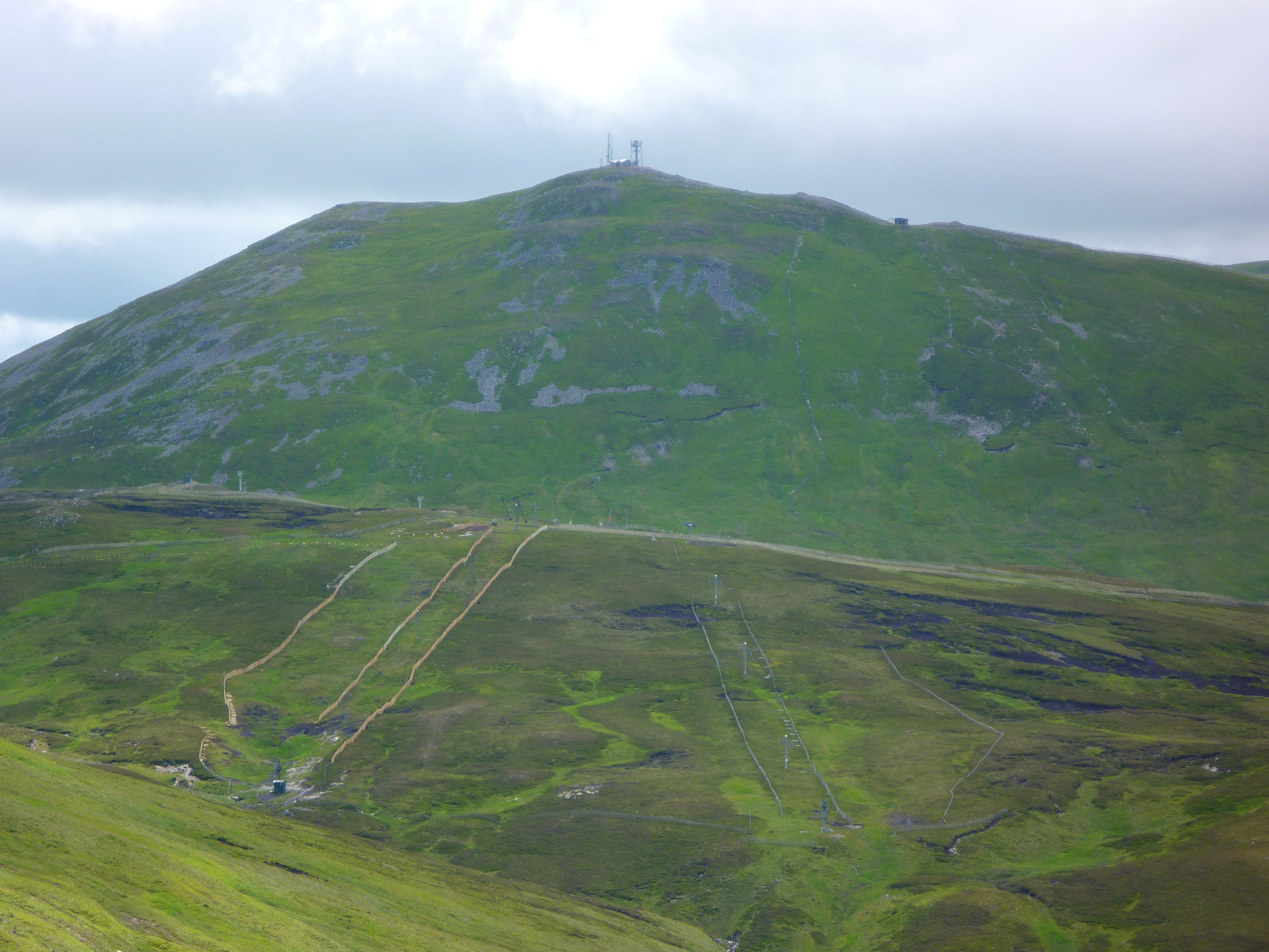 View of "The Cairnwell" from "Sron na Gaoithe" near "Coire Fionn" (Southern Cairgorm Mountains, Aberdeenshire, Scotland).